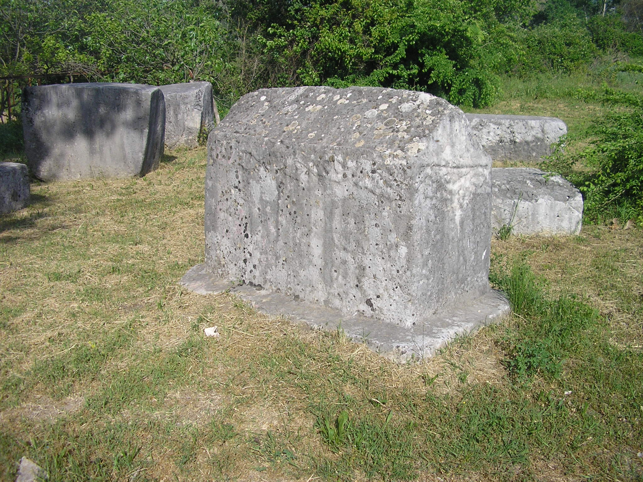 Stećak in Mogorjelo